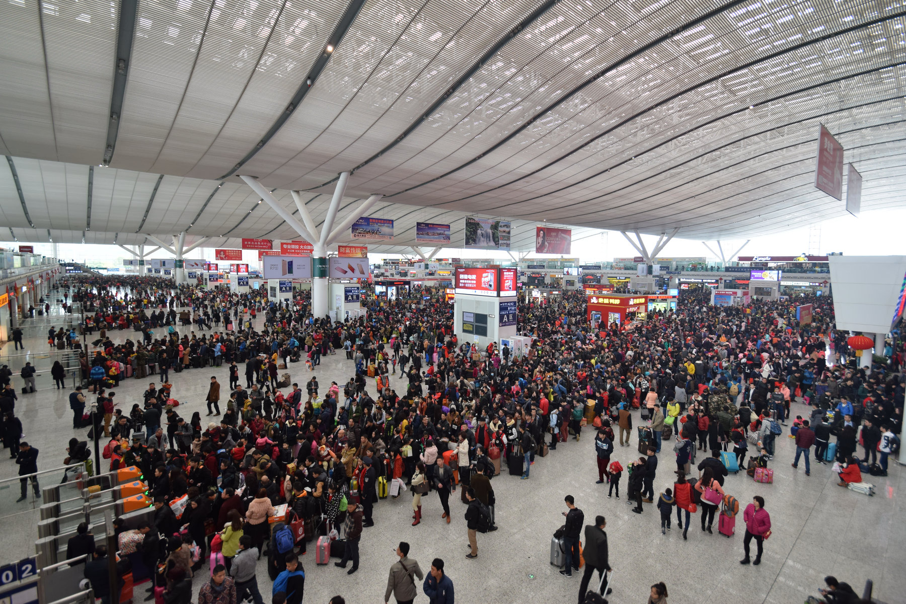 Concourse of Shenzhen Bei (North) Railway Station during 2016 Chunyun period.